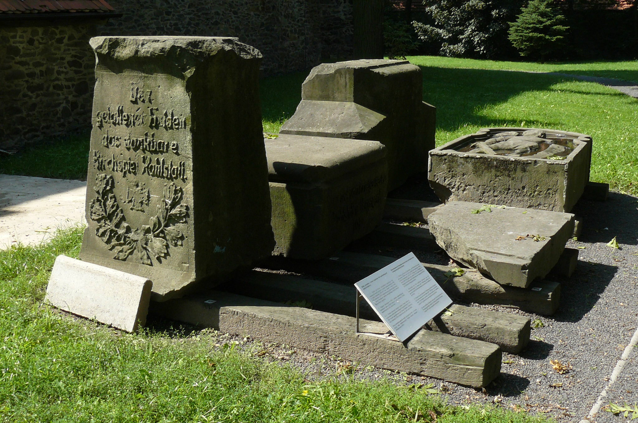 Old monuments relicts in Legnickie Pole.